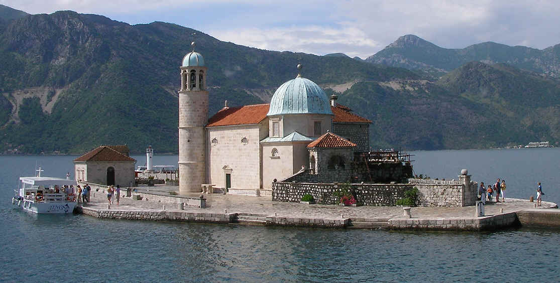 The islet Our Lady of the Rocks, just north of Kotor, Montenegro in the Bay of Kotor